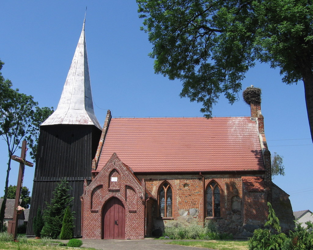 Regina Mundi church in Kłodkowo, Poland